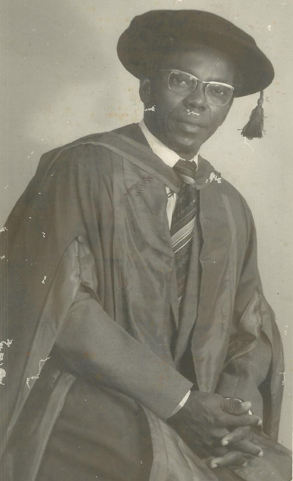 Portrait of Professor Onigu Otite in academic gown and taken at the University of Ibadan